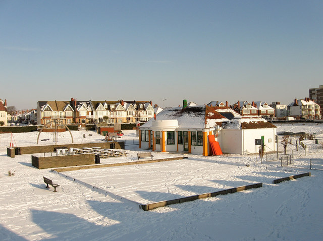 VBites Cafe Originally the Hove Lagoon Cafe which opened in 1930 along with the nearby lagoon it briefly became the Funky Fish before being purchased by Heather Mills, former wife of Paul McCartney, and reopened as VBites in July 2009. V stands for vegan which is the fare on offer in this cafe/bar. Not quite sure what the locals make of it but it was reasonably busy today even though there were not that many people around.